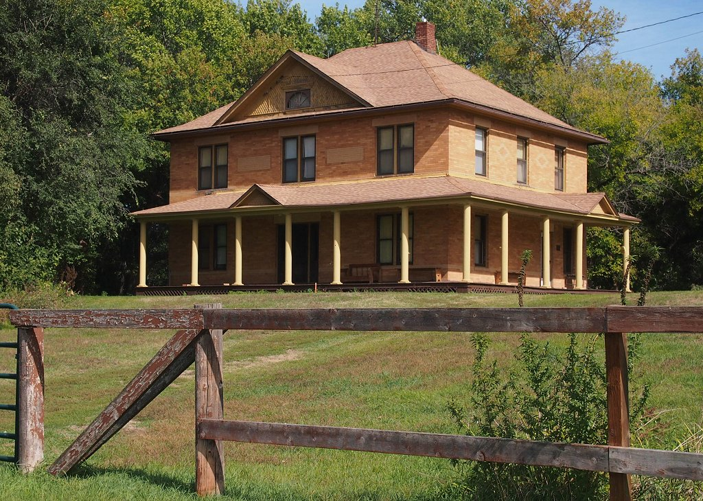 Main building of Larson's Hunters Resort, Lake Valley Township, Minnesota, USA. Viewed from the southwest.